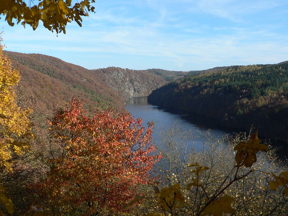 Stechovice reservoir, Czech republic